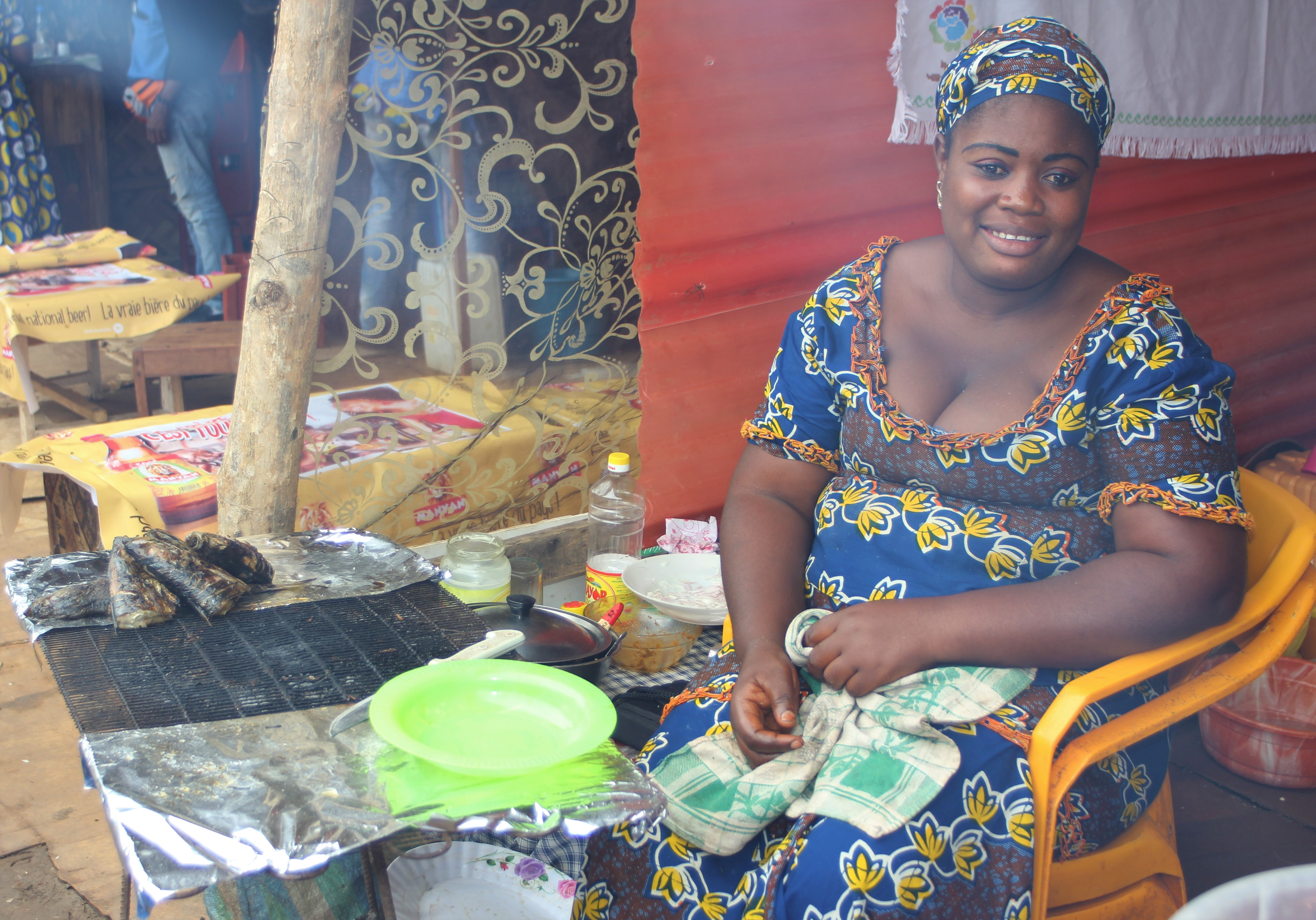 The lady sells grilled fish to customers at a fair in Bafia - Cameroon This is an image of "African people at work" from Cameroon